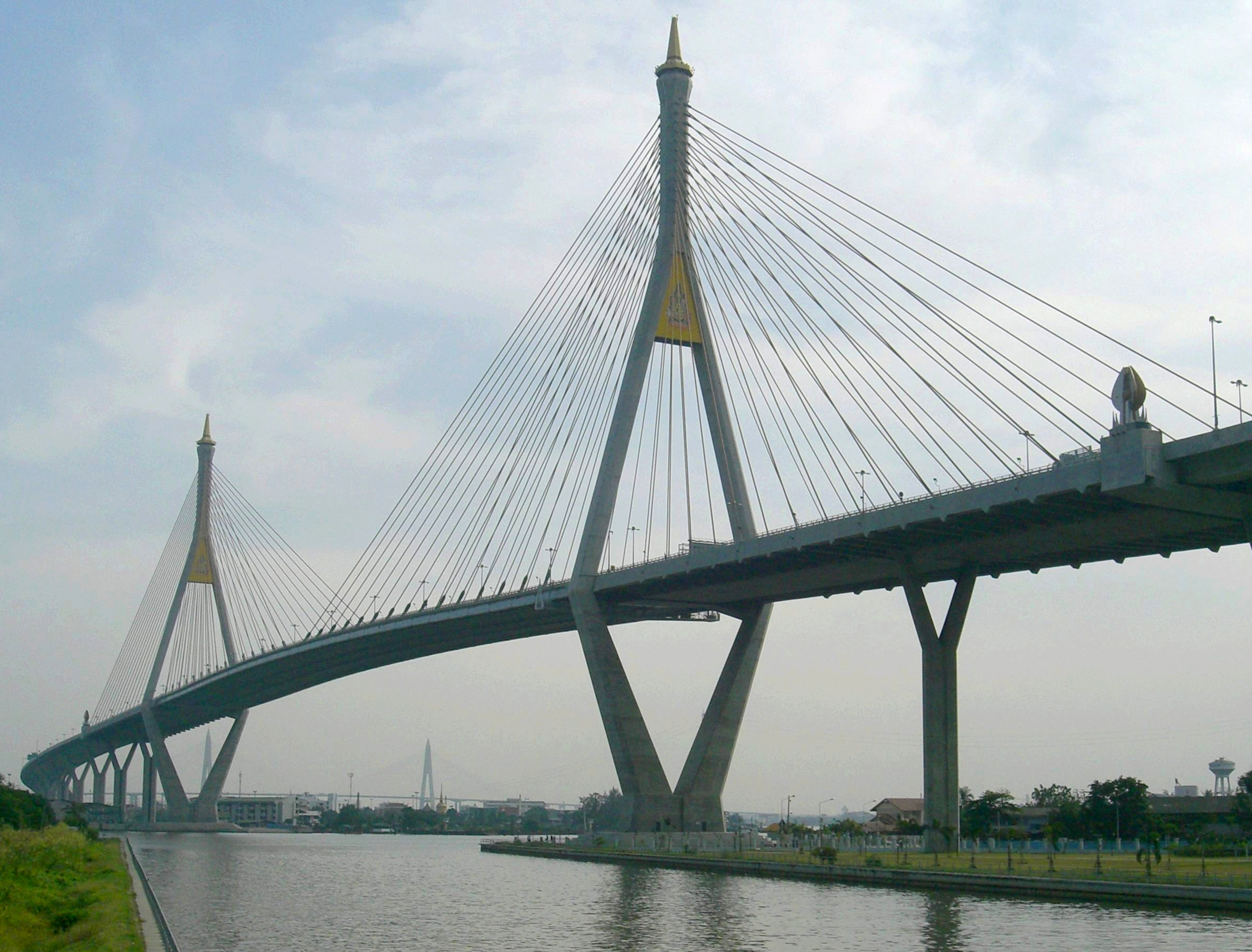 Mega Bridge over Chao Phraya in Phra Pradaeng, Thailand